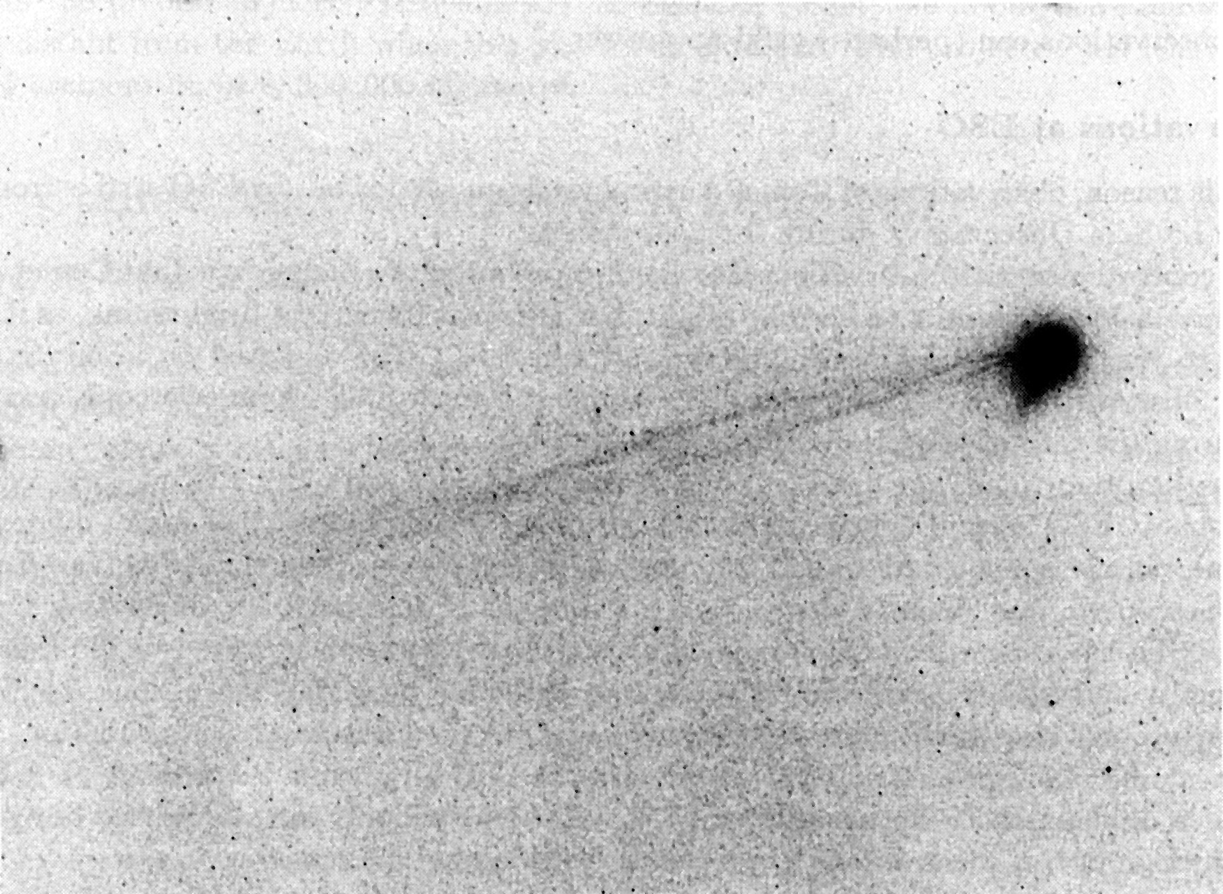 Comet Austin develops an ion tail. This photo is a reproduction of a photographic plate, obtained with the ESO Schmidt telescope at La Silla in the evening of February 24, 1990 (Feb. 25.0 Universal Time). It was made on blue-sensitive emulsion during evening twilight, only 15 degrees above the horizon. The telescope was set to follow the comet's motion; this is why the images of stars are trailed. The reproduction has been photographically amplified to bring out better the details in the faint tails.